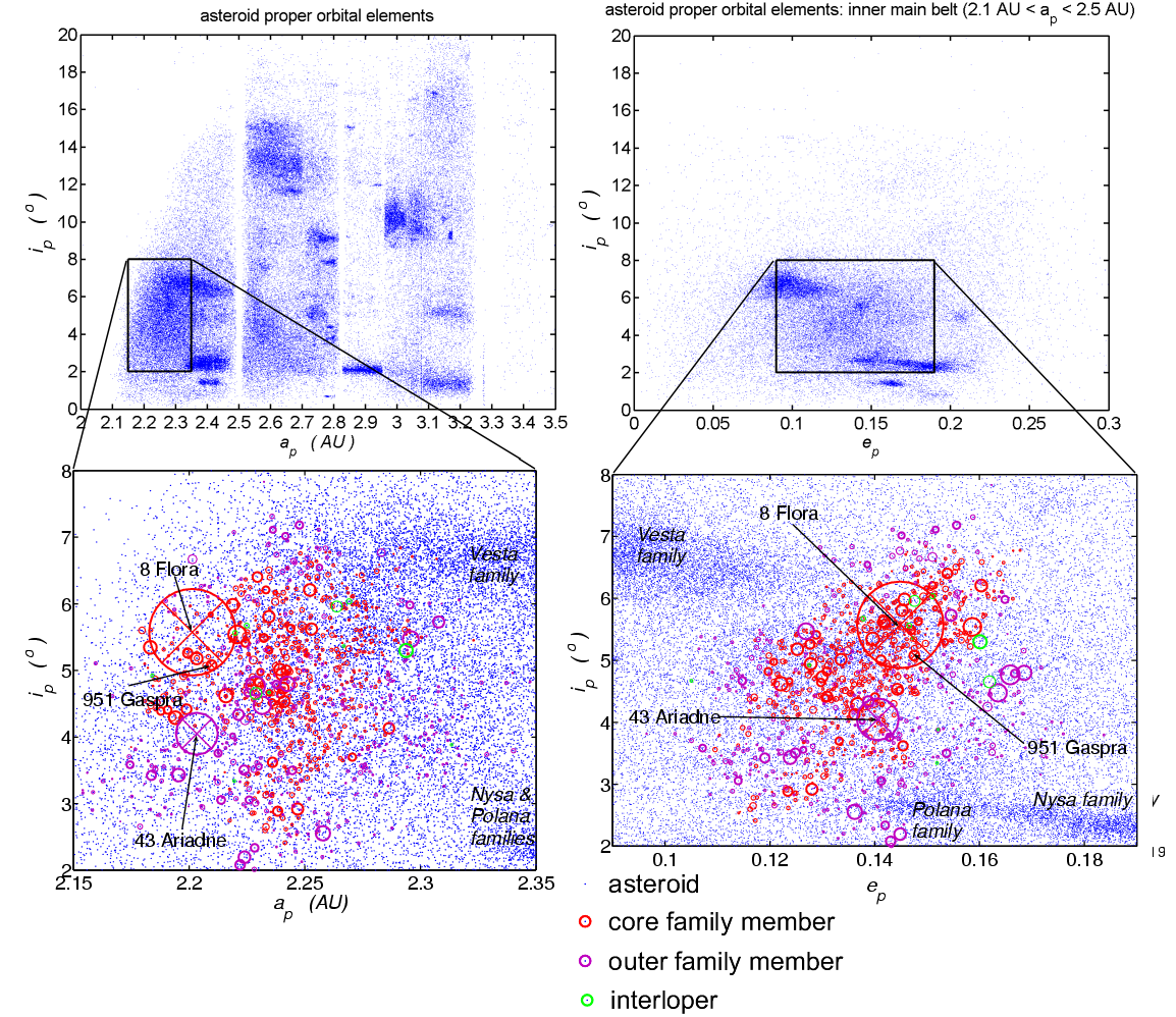 Diagrams showing the location and characteristics of the Flora family of asteroids. Where circles are plotted, their diameter is proportional to the mean diameter of the asteroid. In the top diagrams, the proper orbital elements are plotted (inclination ip vs. semi-major axis ap on the left, and inclination ip vs. eccentricity ep on the right) for numbered asteroids in the main belt. In the bottom enlargements, one has: core family members (shown in red) are those identified by the 1995 Zappala (V. Zappala et al, Icarus Vol. 116, p. 291 (1995)) HCM method analysis. The data set is here. outer family members (shown in purple) were identified by the same analysis, but are somewhat less certain to be members (were given a quality tag of "1" in the data-set) interlopers (shown in green) were identified either: by the spectroscopic analysis of Florczak (M. Florczak et al A Visible Spectroscopic Survey of the Flora Clan, Icarus Vol. 133, p. 233 (1998)), and also by inspection of the PDS asteroid taxonomy data set for non S-type members of the above Zappala 1995 data-set. numbered asteroids in general (shown as small blue dots), from the AstDys database. The location of asteroids that are very large and/or explicitly named on the plot is shown by a light cross within the circle. Asteroid diameters were obtained from two sources: (thick circles): From the IRAS survey, when available (data set here). (thin circles): Otherwise, by assuming an albedo of 0.243 (same as 8 Flora), and estimating from absolute magnitudes from the AstOrb database here. The diagrams were created by me (Piotr Deuar) using proper element data for 96944 minor planets, which was obtained from the AstDys site. Data was dated March 2005, calculation was by Z. Knezevic and A. Milani. The top left plot is a slightly modified reduced version of :Image:Asteroid_proper_elements_i_vs_a.png.